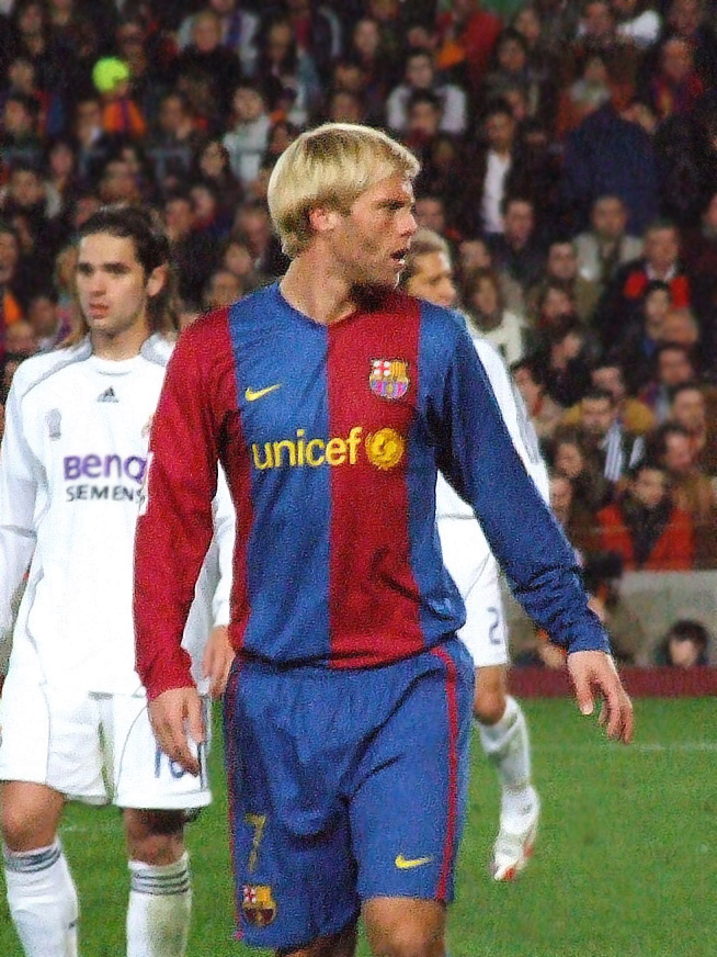 Eiður Guðjohnsen, Futbol Club Barcelona's player, during the match FC Barcelona-Real Madrid.